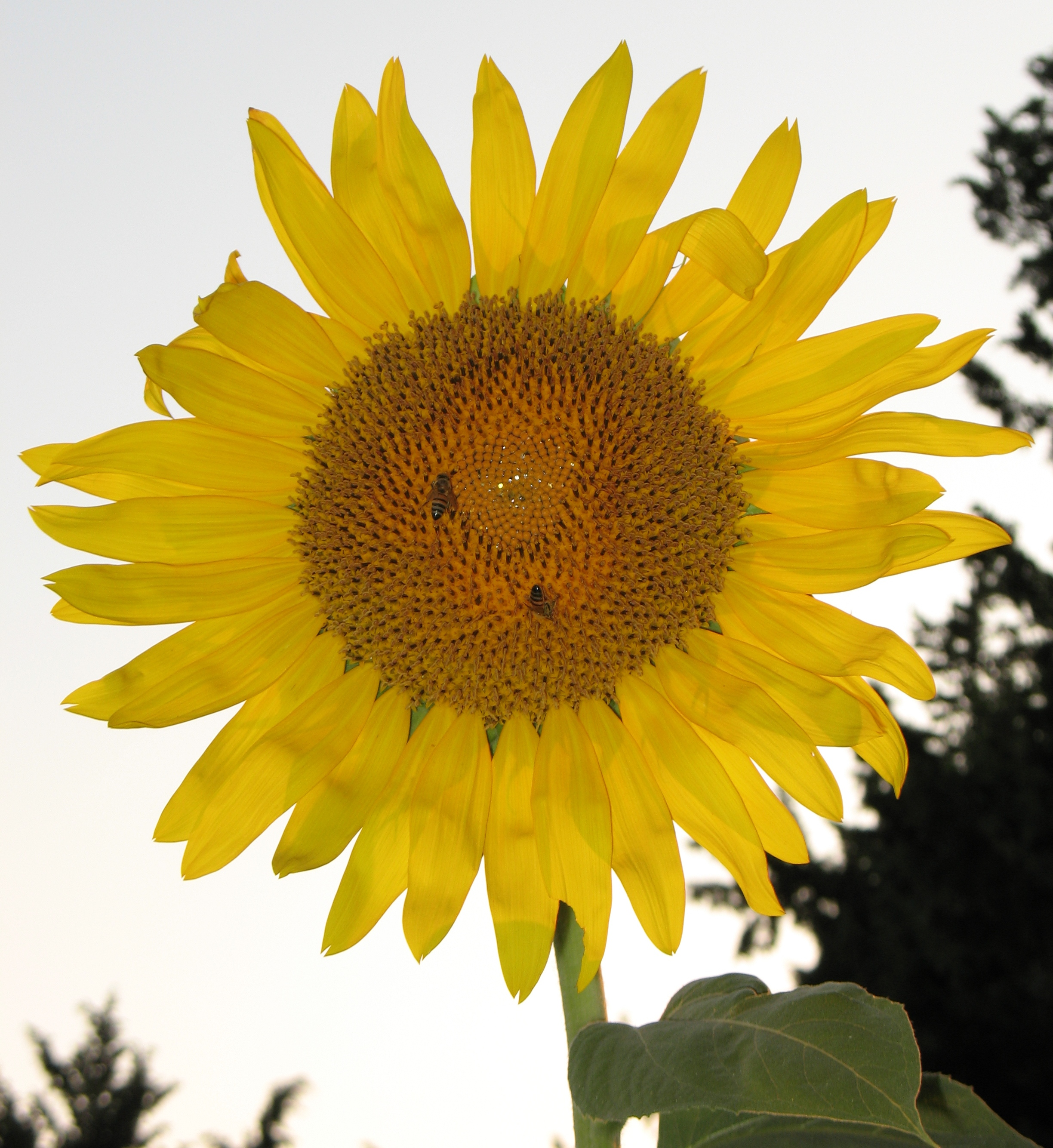 a sunflower Kurdî: Çîçekê beberoyê